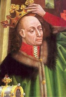 King Władysław II Jagiełło, detail of the Triptych of Our Lady of Sorrows in the Wawel Cathedral.